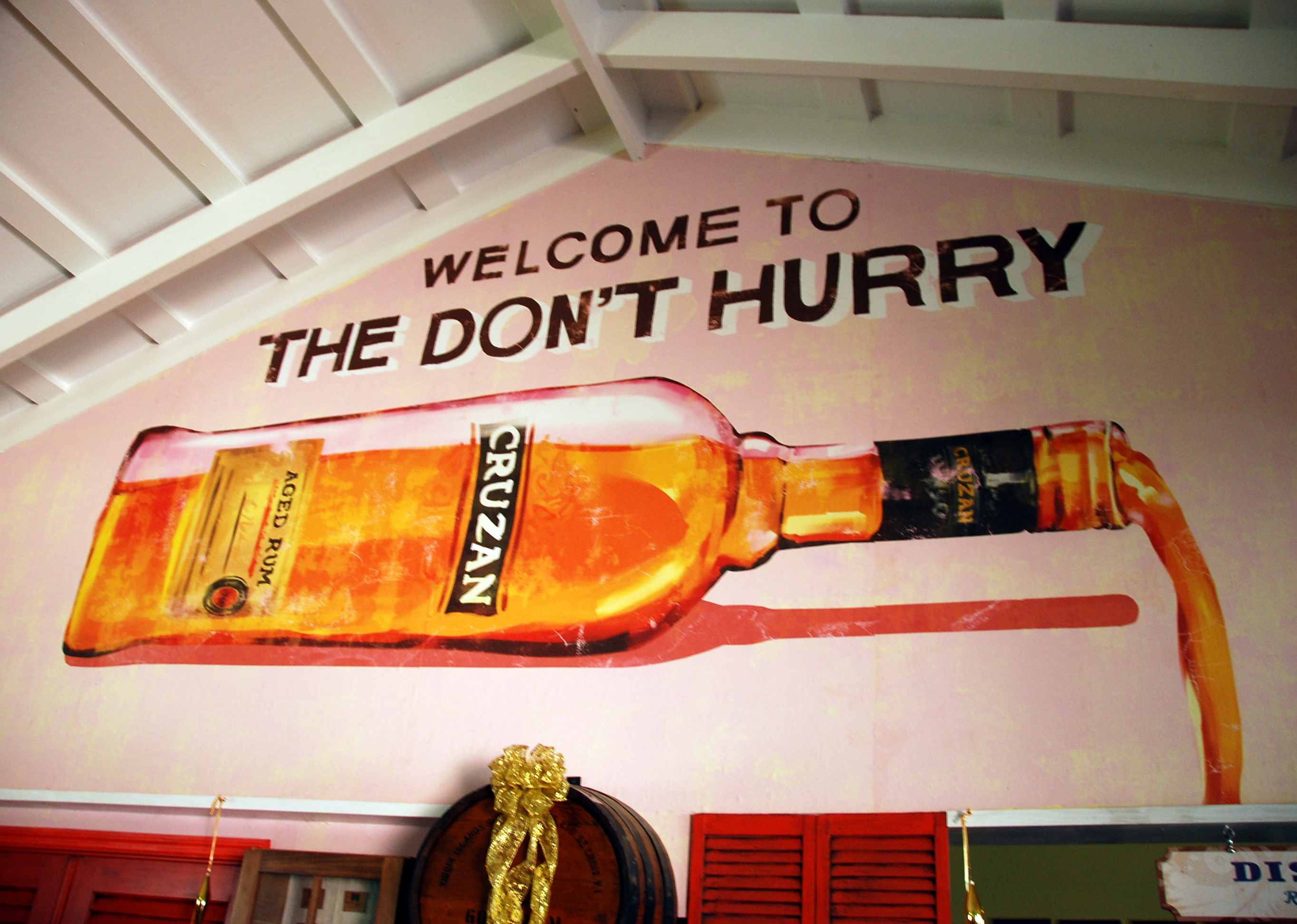 Cruzan Rum Destillery, St. Croix USVI